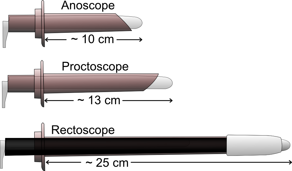 An anoscope, a proctoscope and a rectoscope, with approximate lengths. Source: Gima International Catalogue